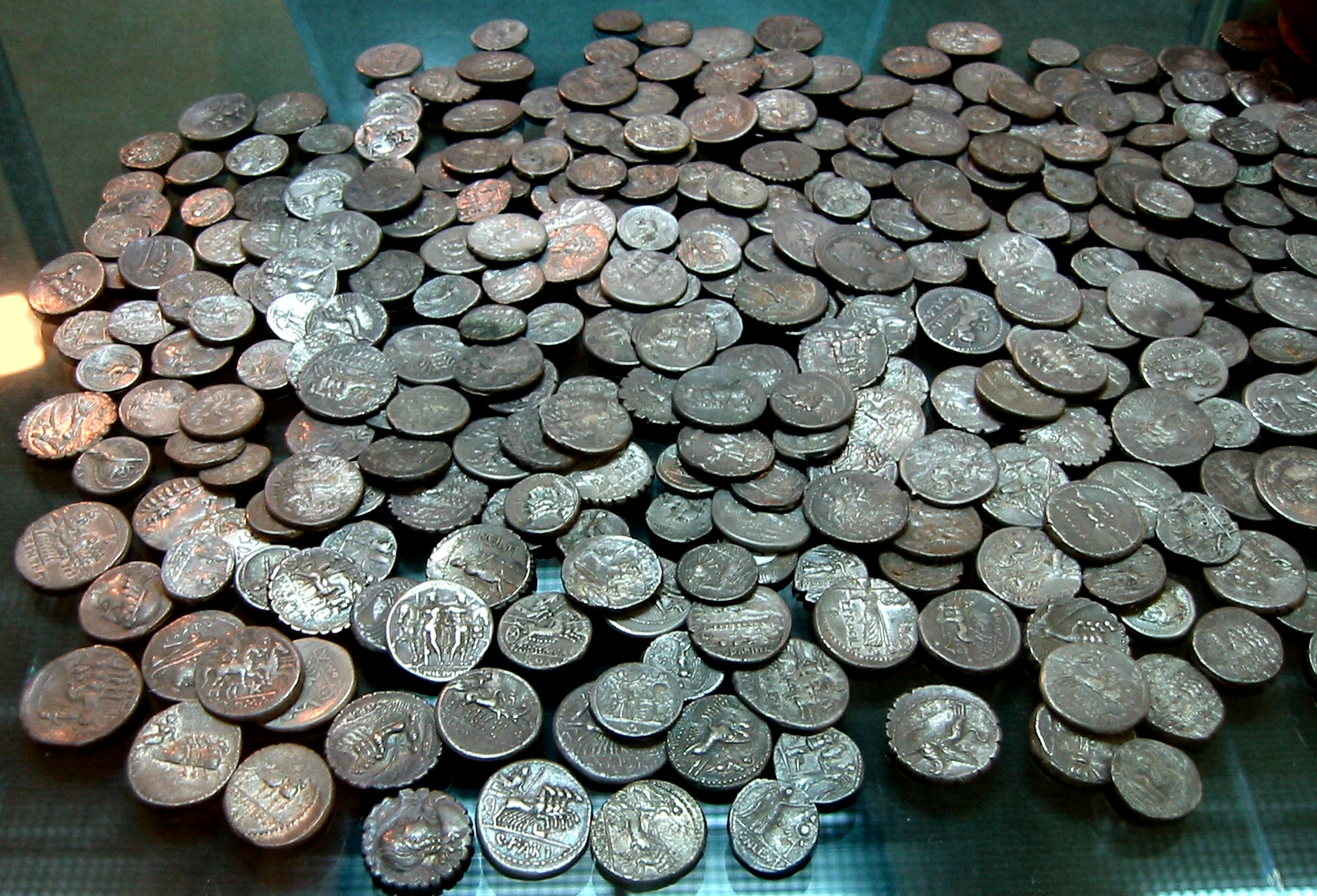 Coins found in Herakleia, a city of Magna Graecia, on view in the Museo Nazionale della Siritide in Policoro in Italy.